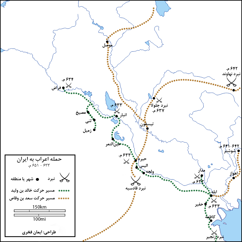 Muslim conquest of Persia